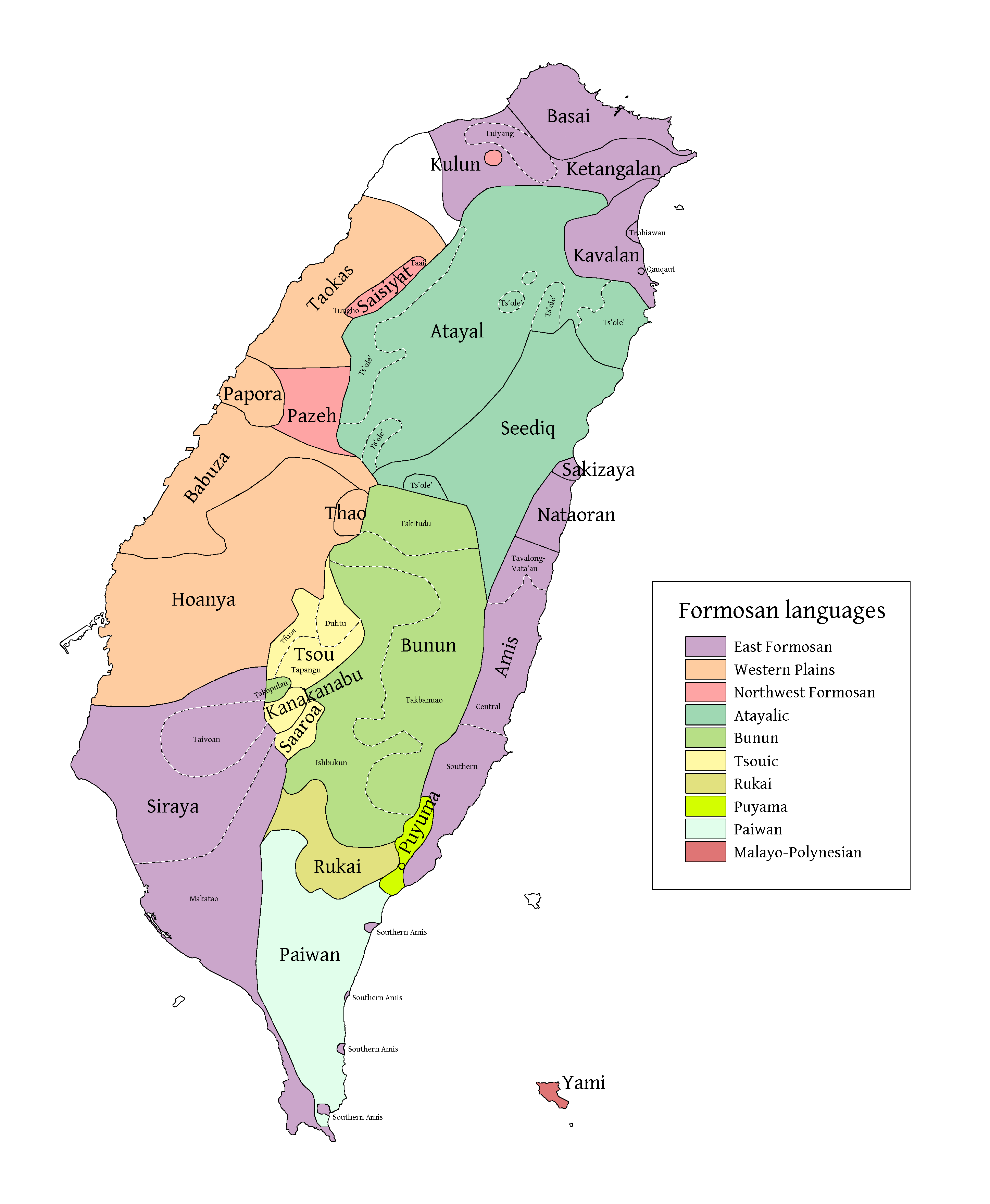 Distribution of Formosan languages before Chinese colonization